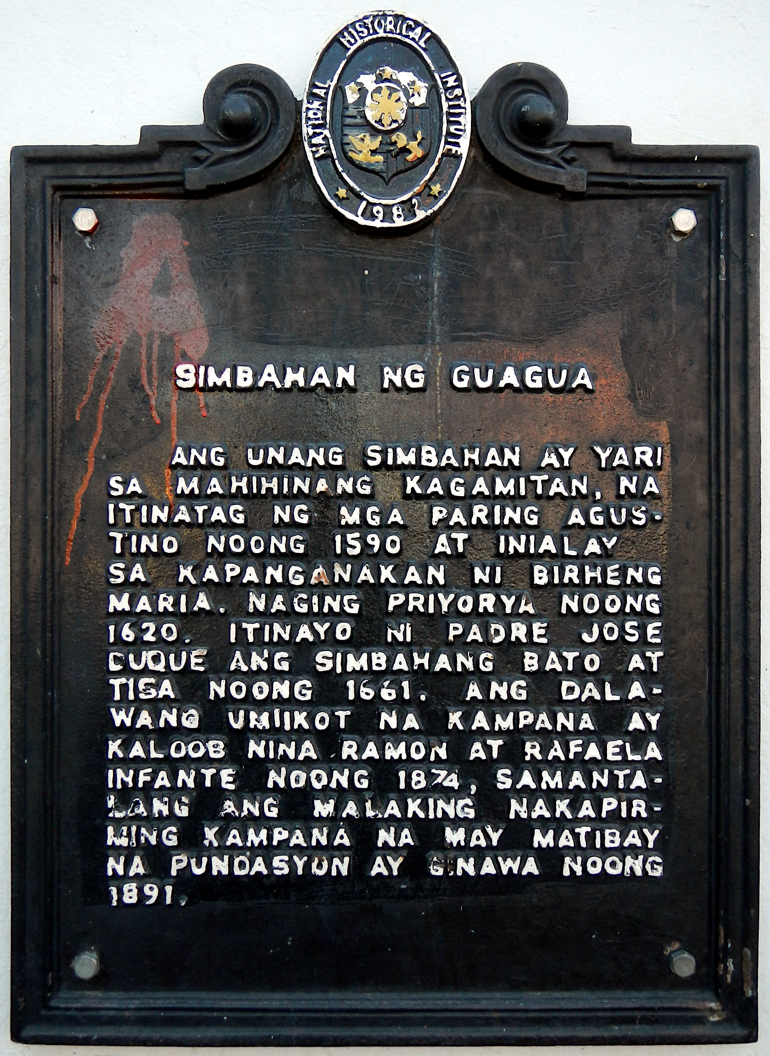 National Historical Institute historical marker for Guagua Church.